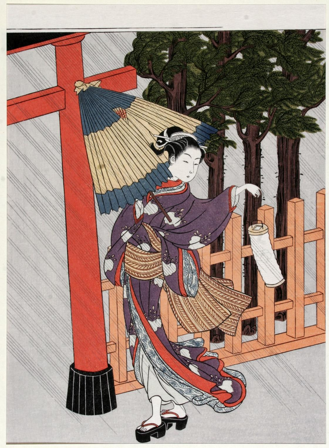 Suzuki Harunobu (1724-1770), Beauty visiting a sanctuary on a rainy night. Collection of Japanese prints of Centre Céramique, Maastricht, the Netherlands.